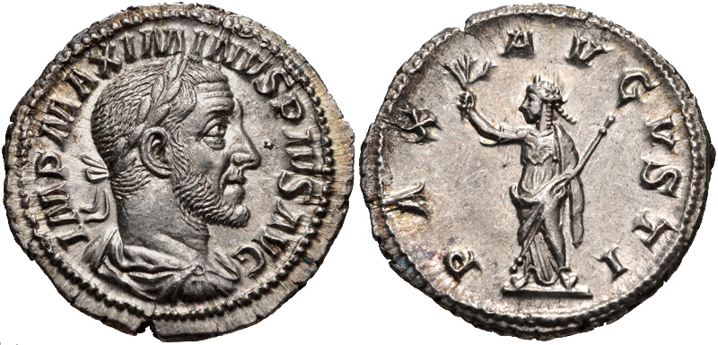 Maximinus I. AD 235-238. AR Denarius (20mm, 2.95 g, 7h). Rome mint. 2nd emission, AD 236. IMP MAXIMINUS PIUS AUG, Laureate, draped, and cuirassed bust right PAX AUGUSTI, Pax standing left, holding olive branch and transverse scepter. RIC IV 12; RSC 31a.